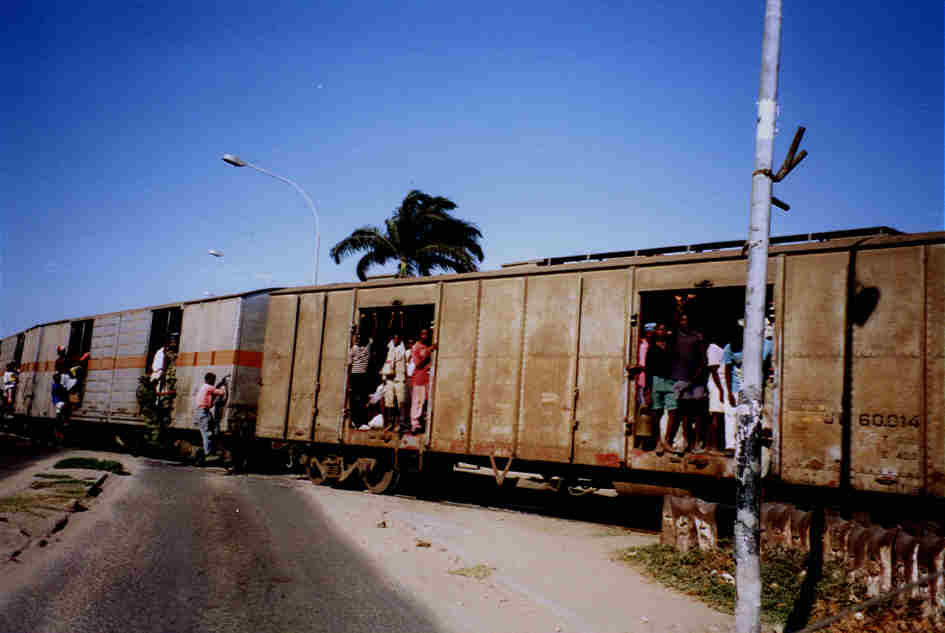 The Benguela Railway passes the city of Benguela (1995)